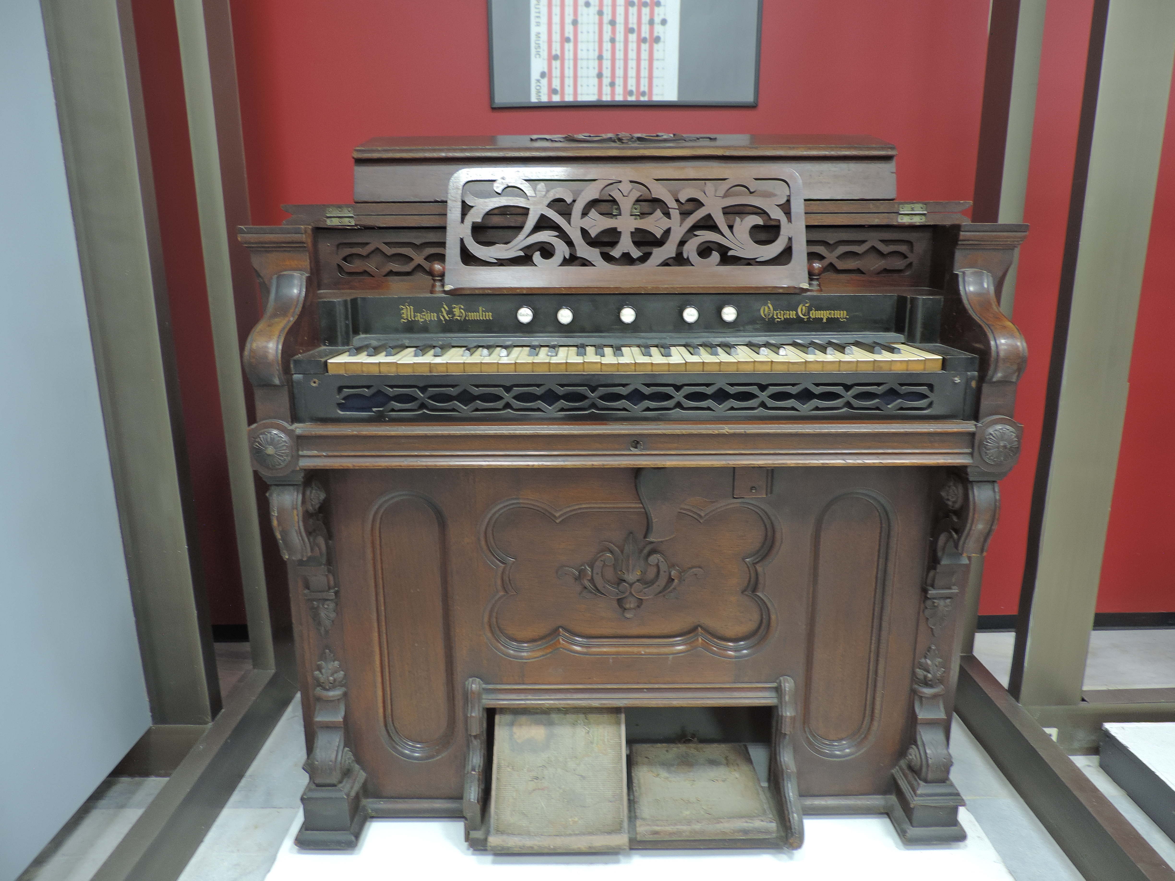 Harmonium "Metropolitan F" Mason & Hamlin Organ Company, Boston (USA), 1877 Standart keyboard with 6 octaves, 5 tremble and range registers, 2 foot pedals - bellows the harmonium belongs to the group of key musical instruments. The sounds is produced trough freely vibrating plates (reeds). This is why the Harmonium is called "Reed organ". It is driven by two foot pedals which set in motion the bellows for blasting air in the pipes.